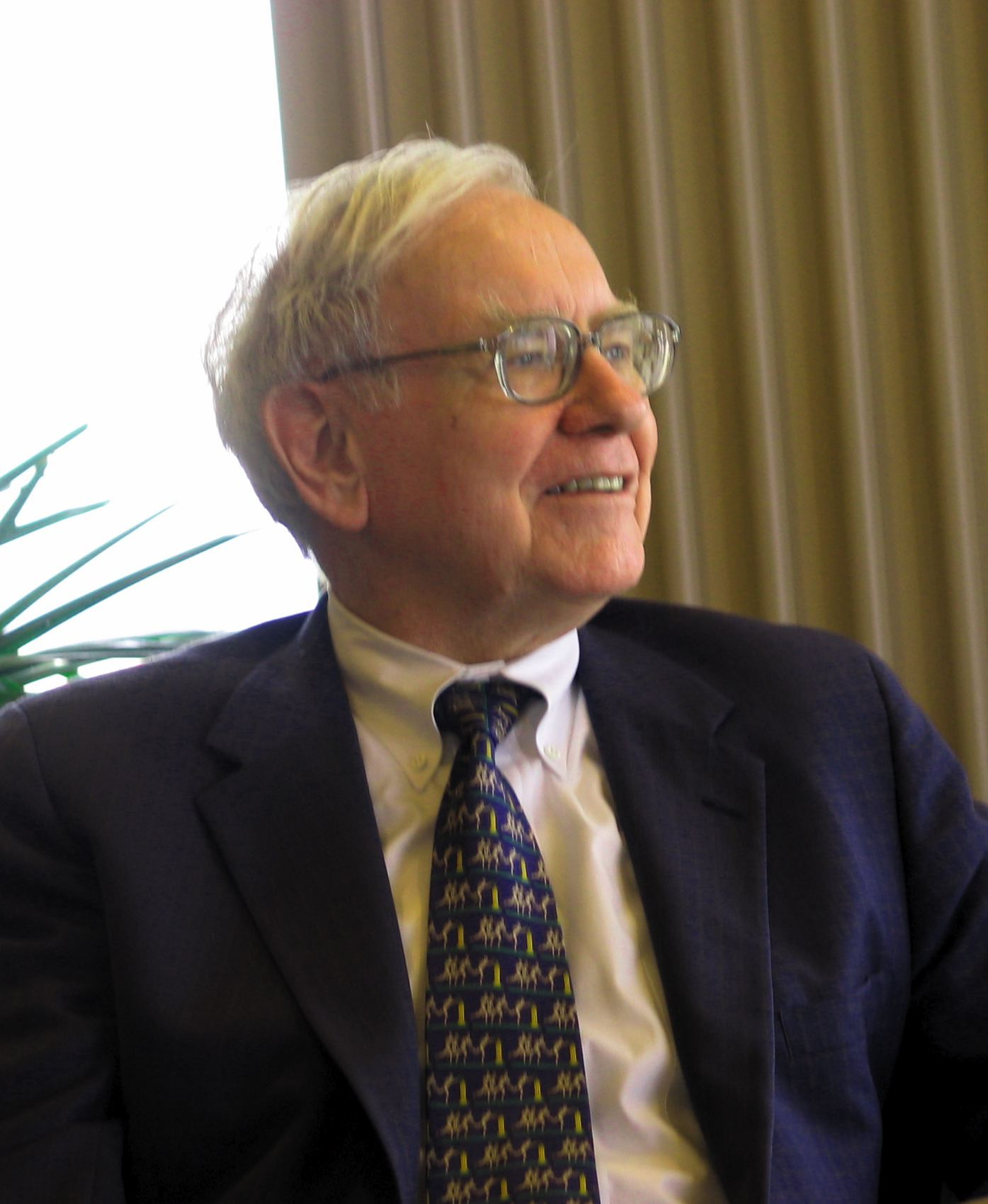 Warren Buffett speaking to a group of students from the University of Kansas School of Business